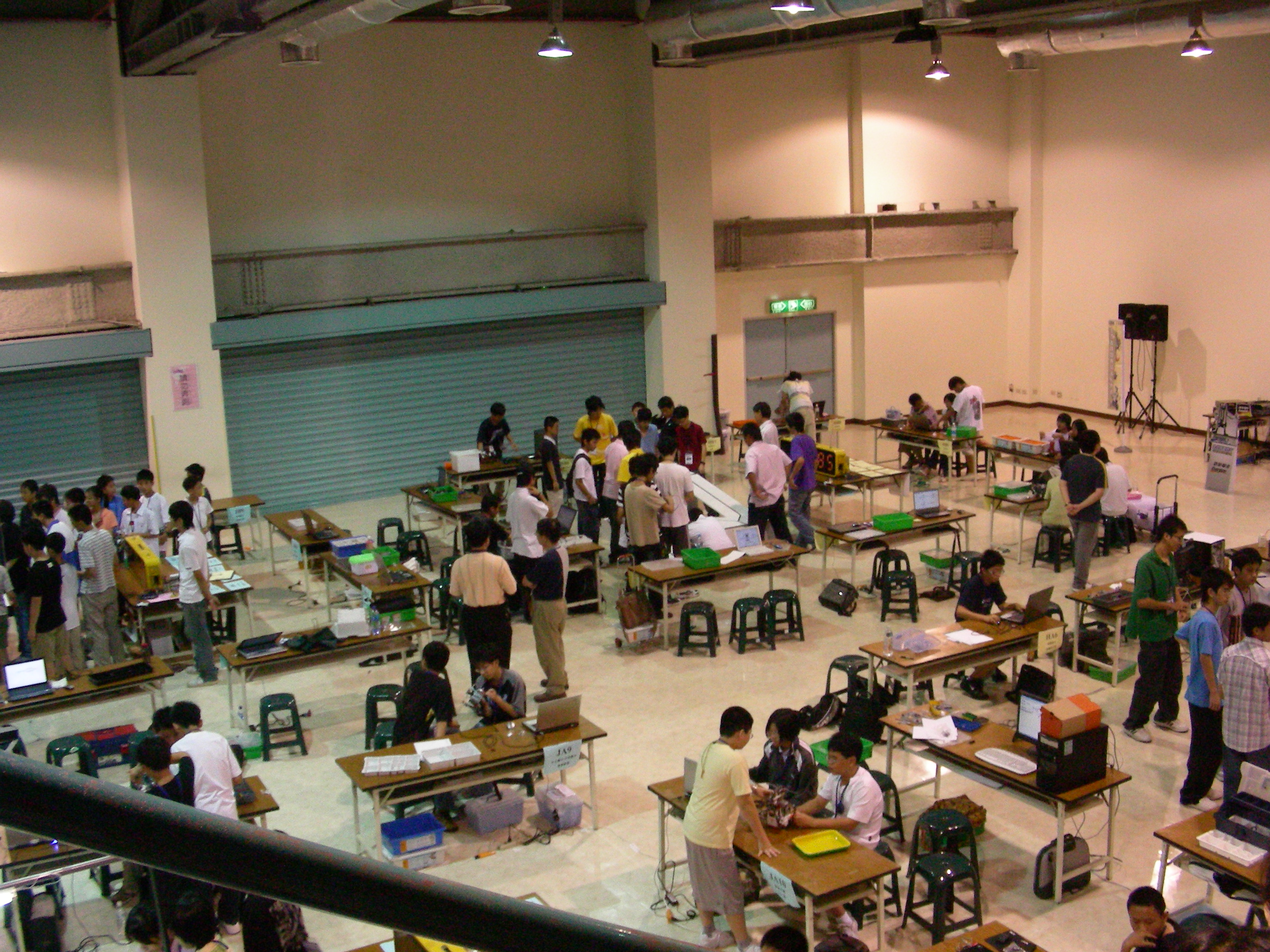 World Robot Olympiad Taiwan heat